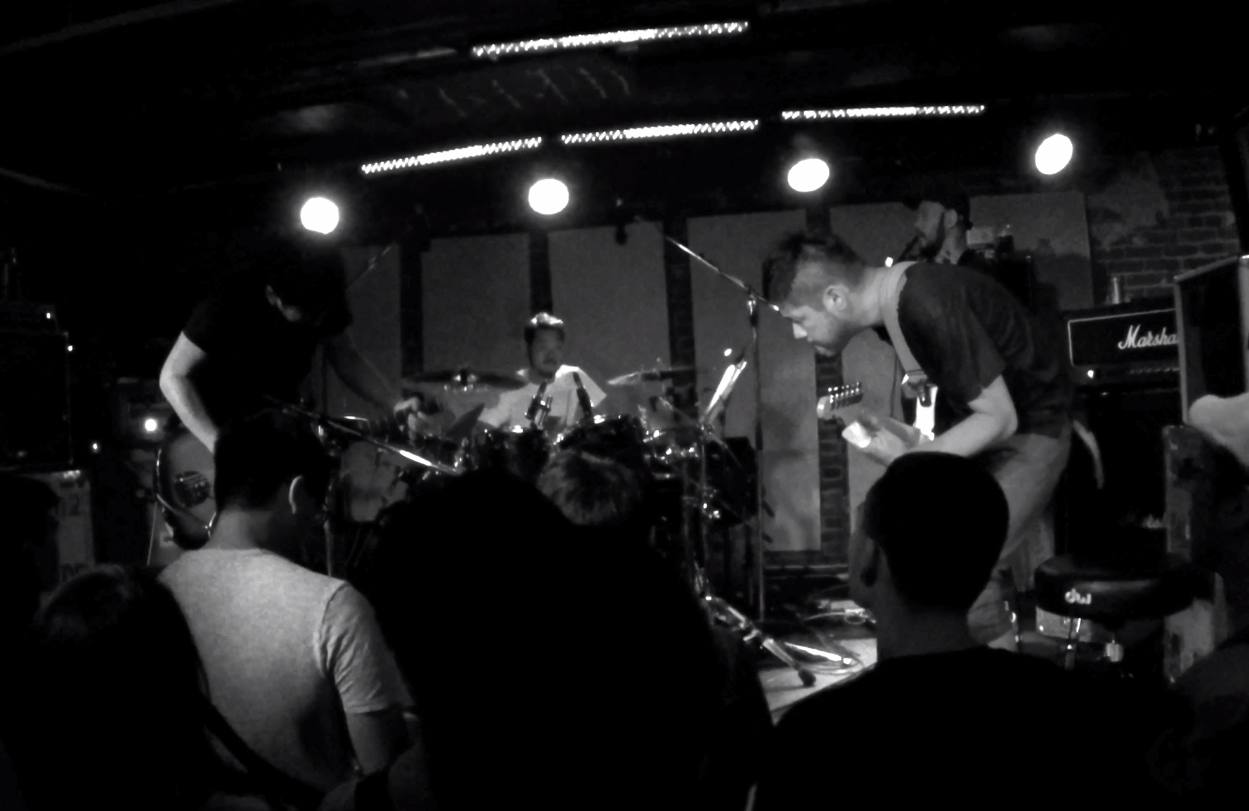 Japanese band Toe performing at Electric Owl Social Club in Vancouver, British Columbia, Canada.